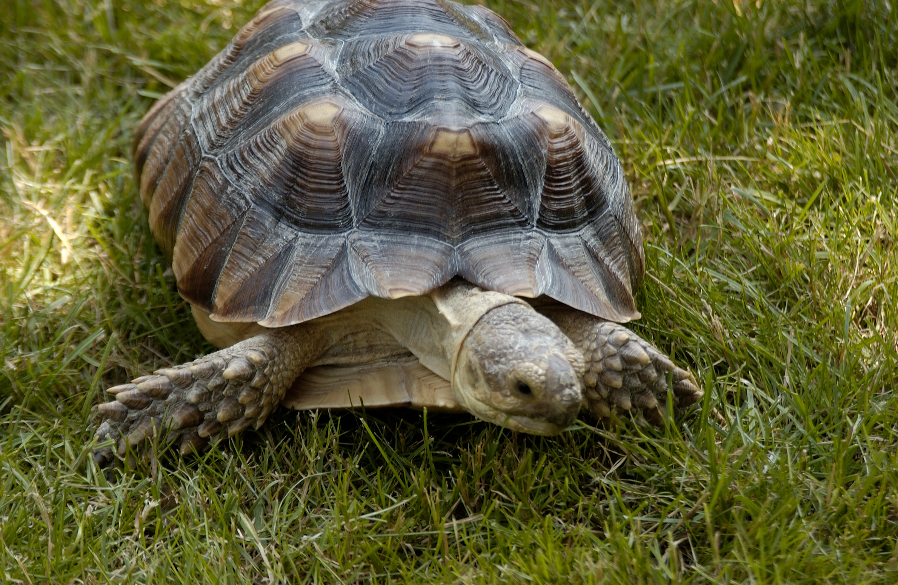 Photo by Paul Barnard